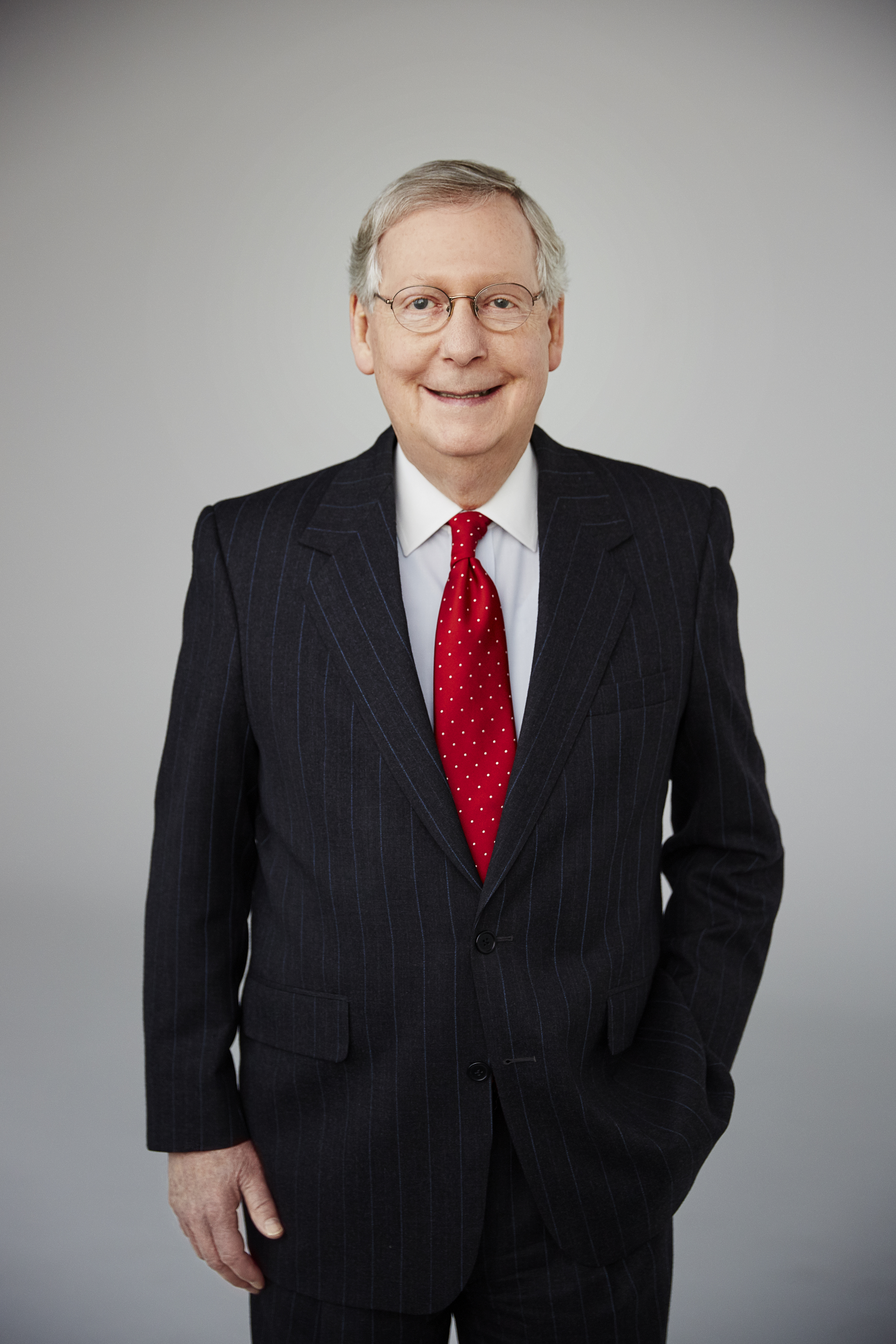 U.S. Senator, Mitch McConnell's current official photo